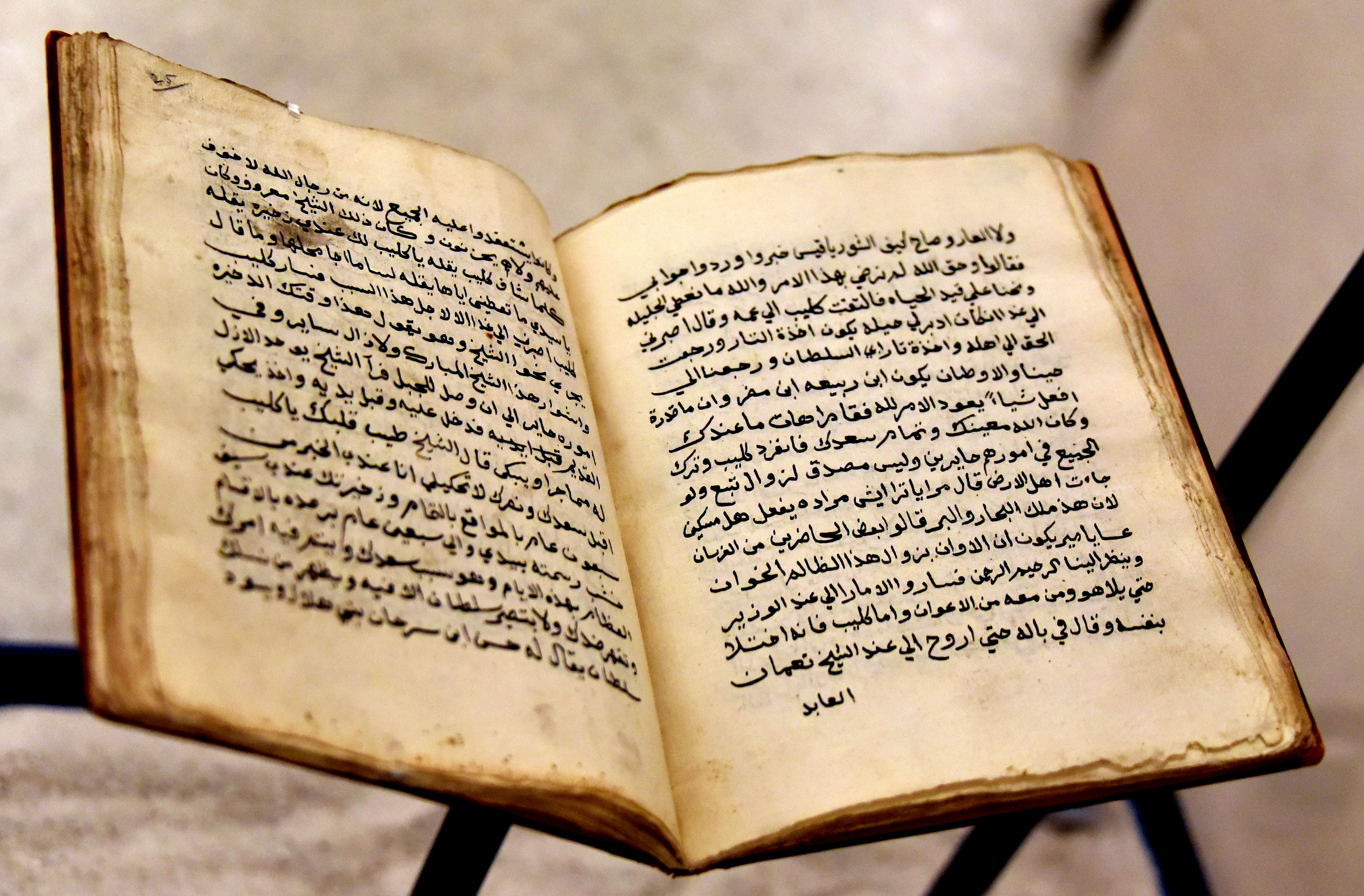 A rare Arabic manuscript of the orally-transmitted epic poem narrating the story of the Bedouin "Banu Hilal", written by Hussein Al-Ulaimi, 1849 CE, origin unknown. Banu Hilal emigrated from the Arabian Peninsula to Egypt and then to Tunisia. It was displayed at the Neues Museum in Berlin, Germany, Exhibition of "Cinderella, Sindbad & Sinuhe, Arab-German Storytelling Traditions", April 18, 2019, to August 18, 2019. Berlin State Library, Prussian cultural heritage, Orient Department (Staatsbibliothek zu Berlin, Preußischer Kulturbesitz, Orientabteilung, Wetzstein II 867 und Wetzstein II 868-871).